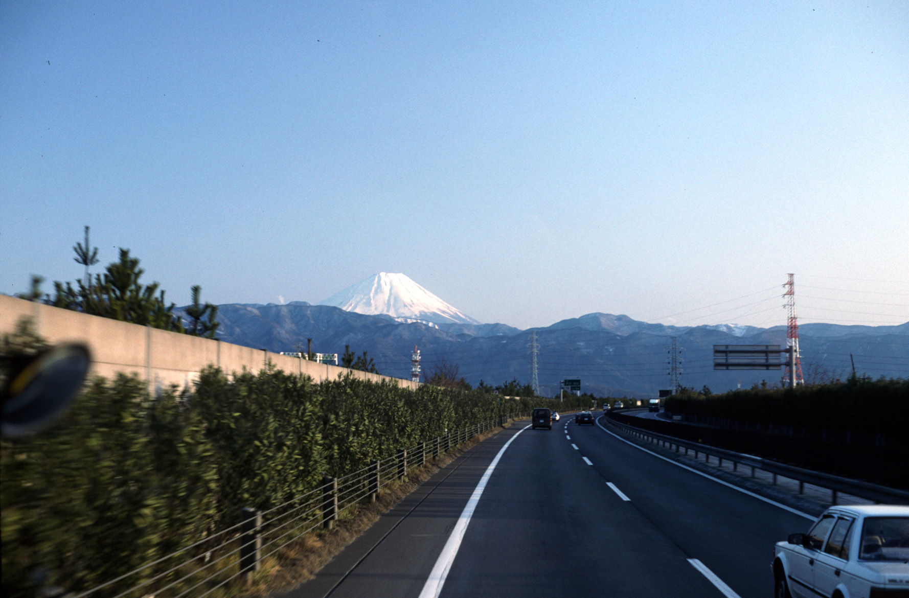 Mt. Fuji viewed from the Chuo Expressway in or near Yamanashi Prefecture, Japan.